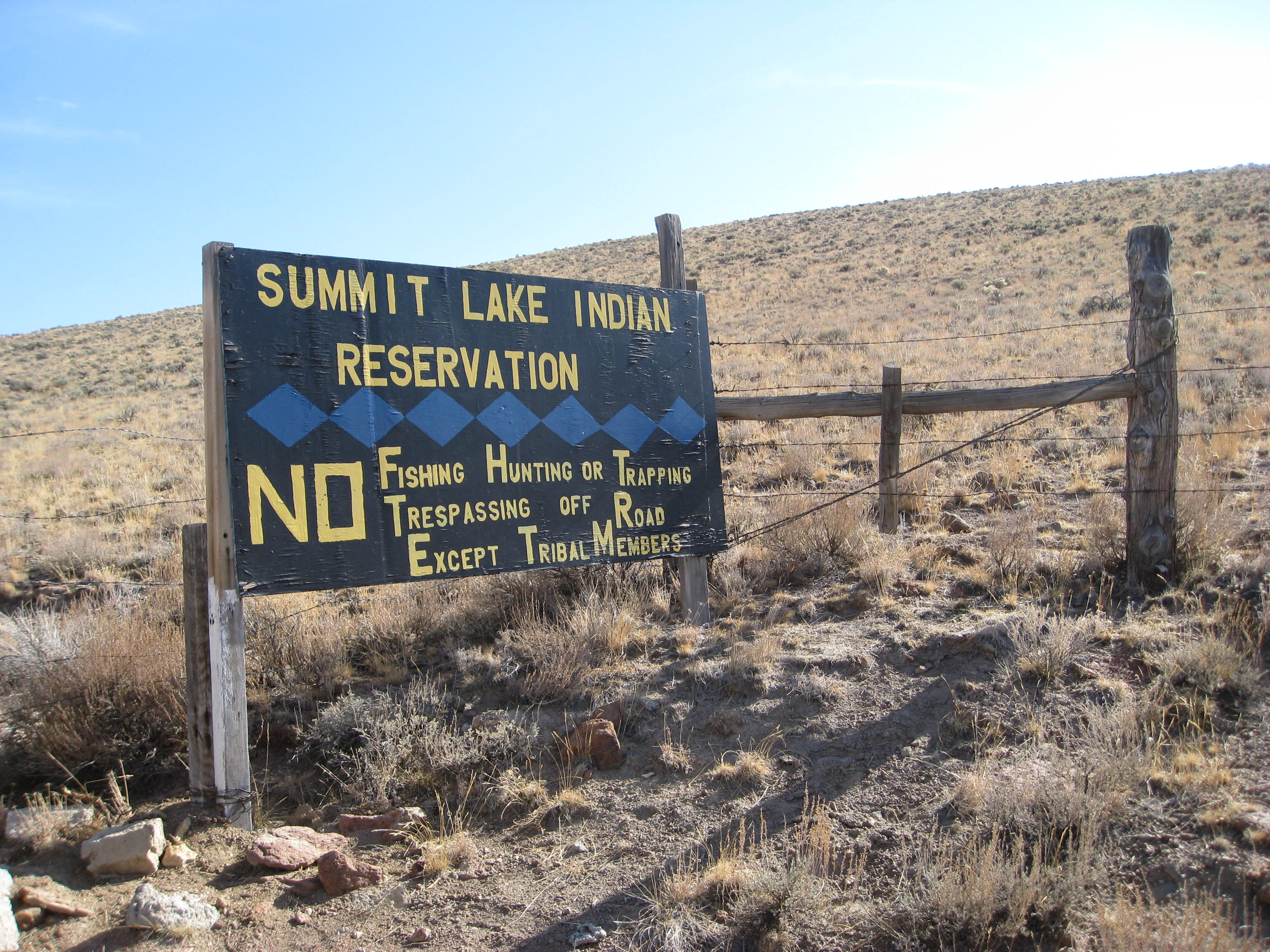 Summit Lake Paiute Indian Tribe - Summit Lake is home of Lahontan cutthroat trout i102708 183